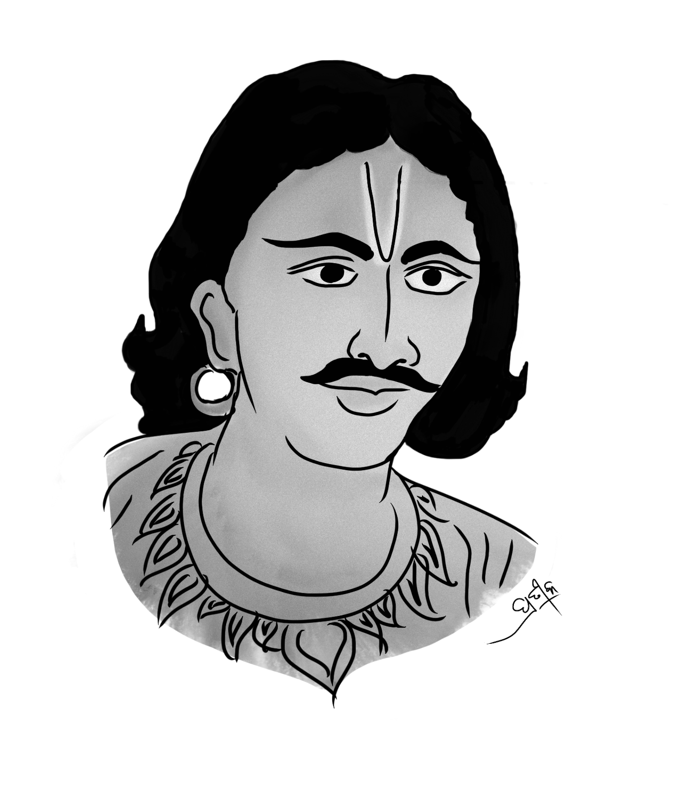 The famous Odia poet, Kabi Samrat Upendra Bhanja. Digital painting based on popular conception. This image was originally made by the author for use on